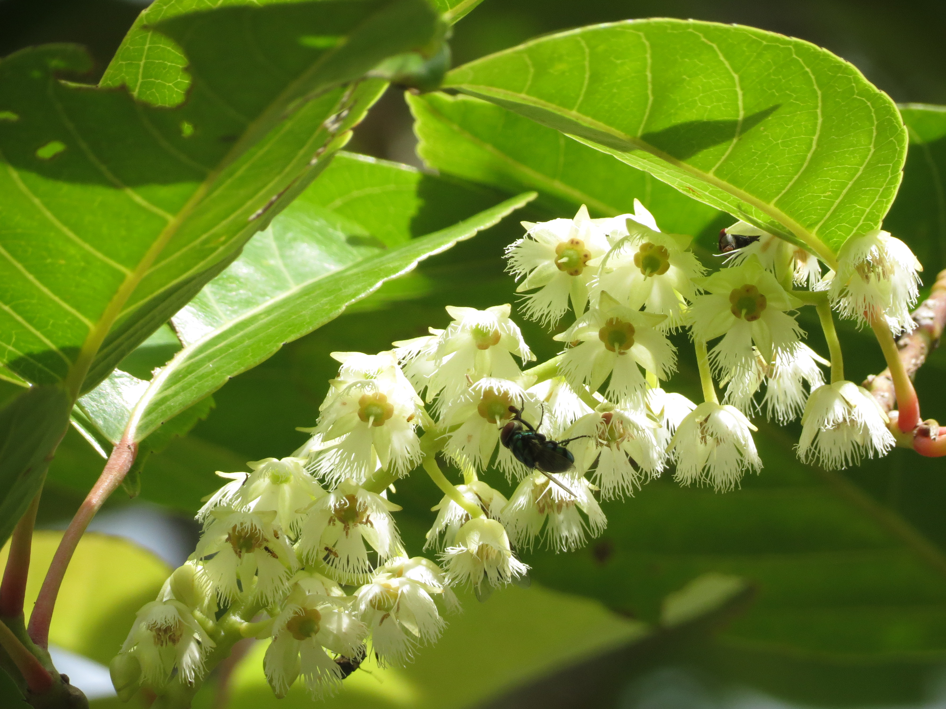 Elaeocarpus floribundus flower seen in FRLHT